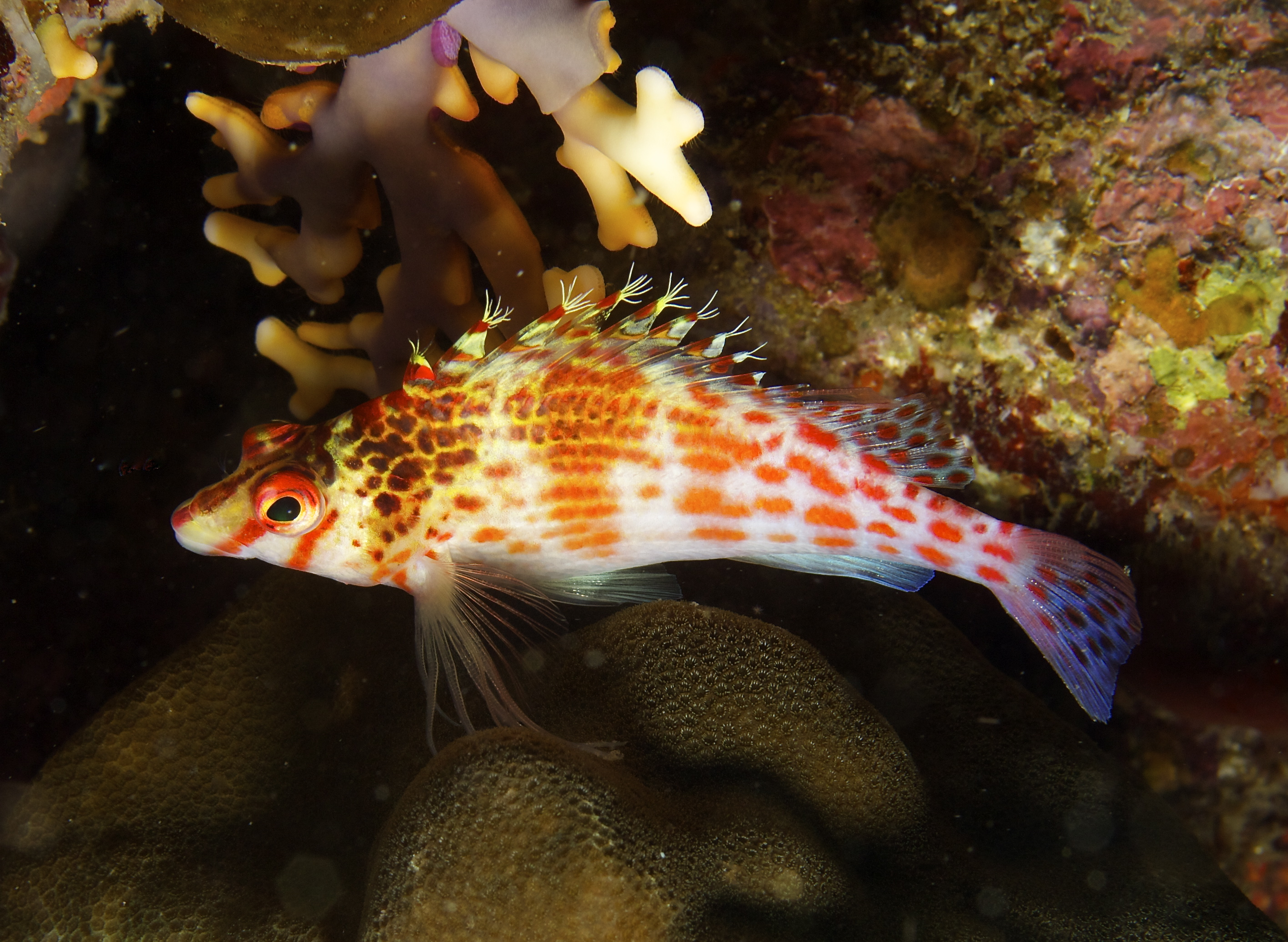 Cirrhitichthys oxycephalus Pixie or Coral Hawkfish